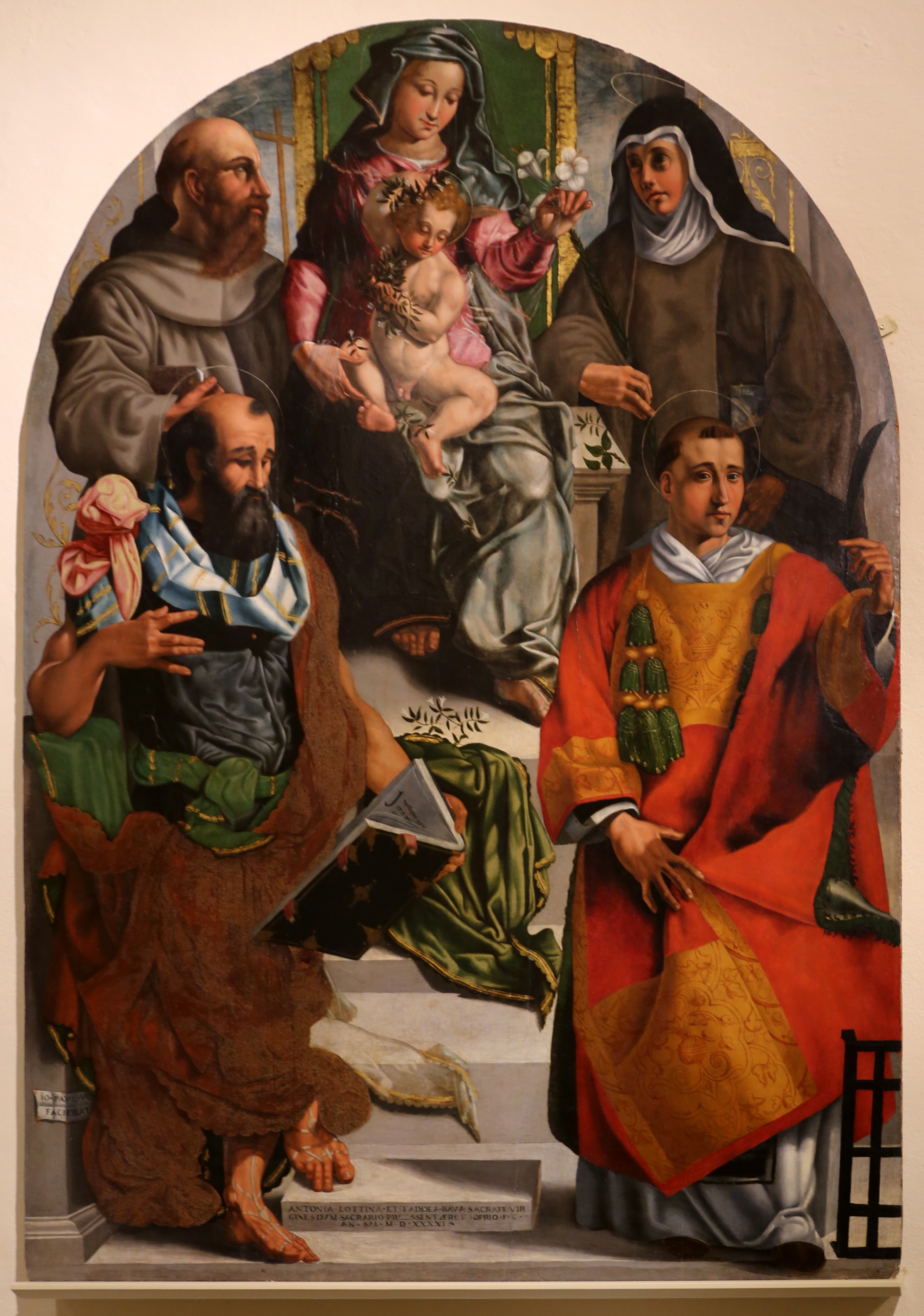 Paintings in the Museo diocesano (Volterra)